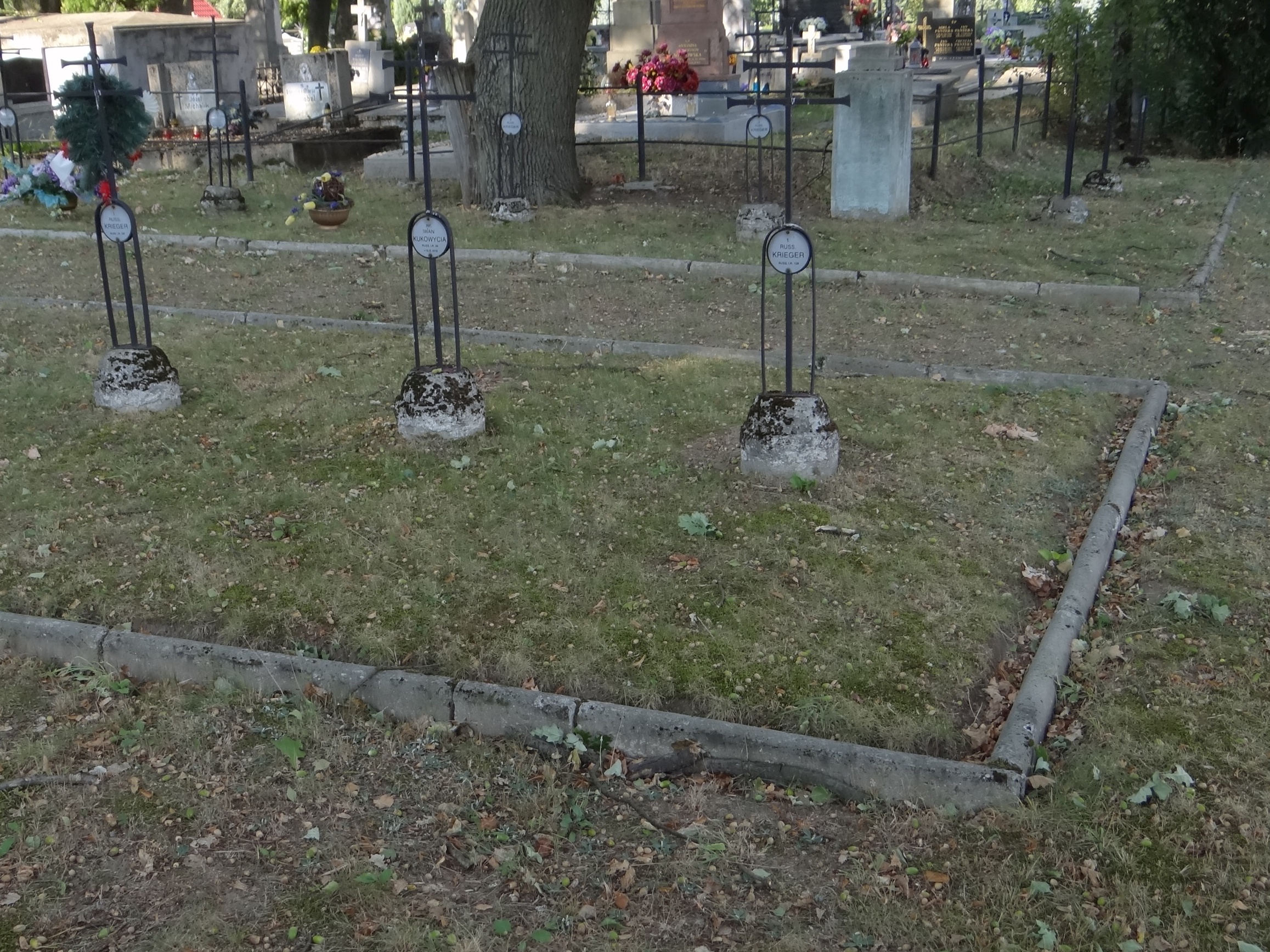 World War I Cemetery nr 253 in Żabno